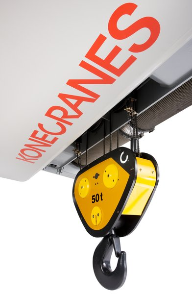 Konecranes SMARTON winch